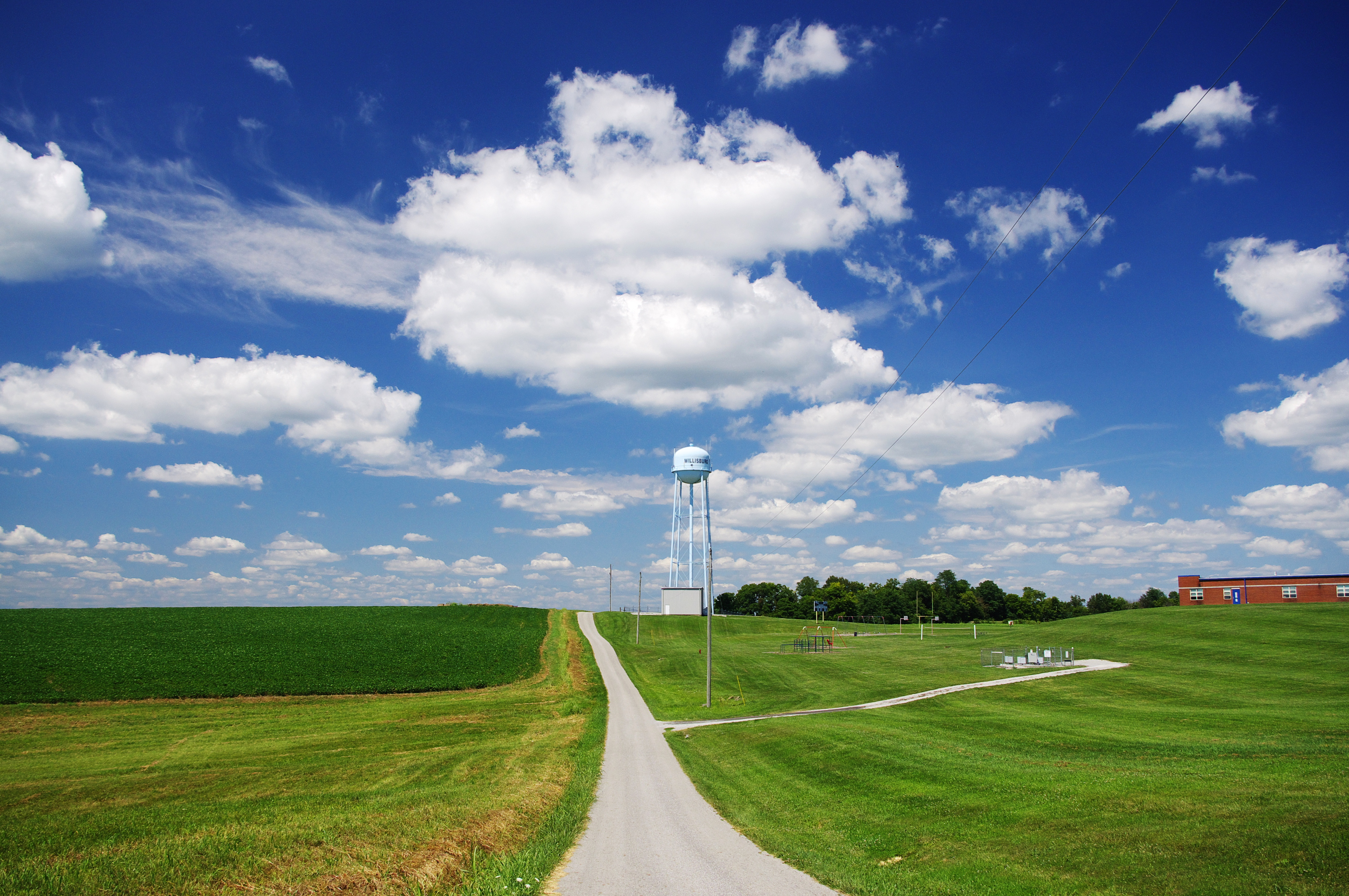 Water tower along Cloyd Lane in Willisburg, Kentucky, United States.